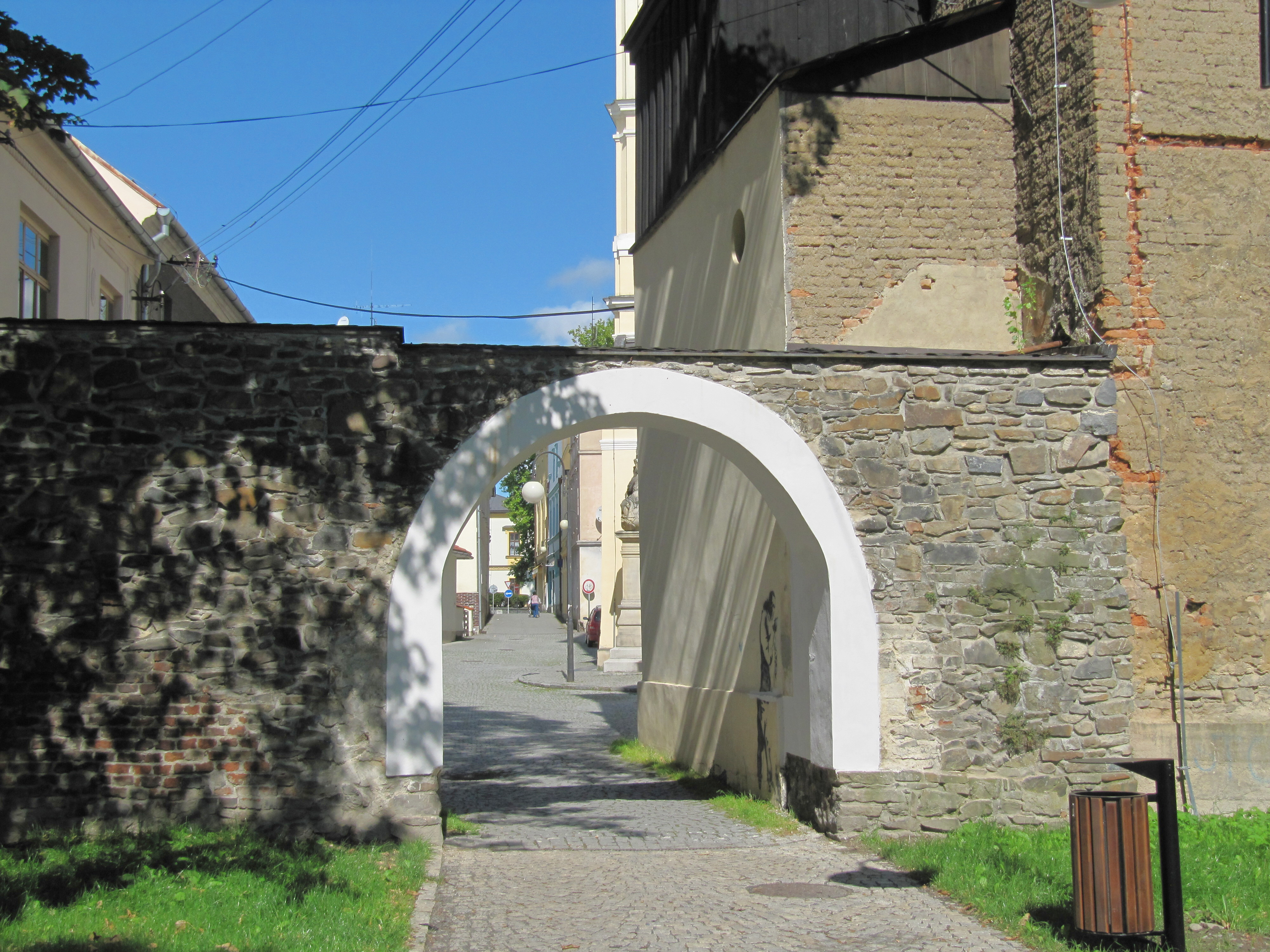 Odry in Nový Jičín District, Czech Republic. Gate.